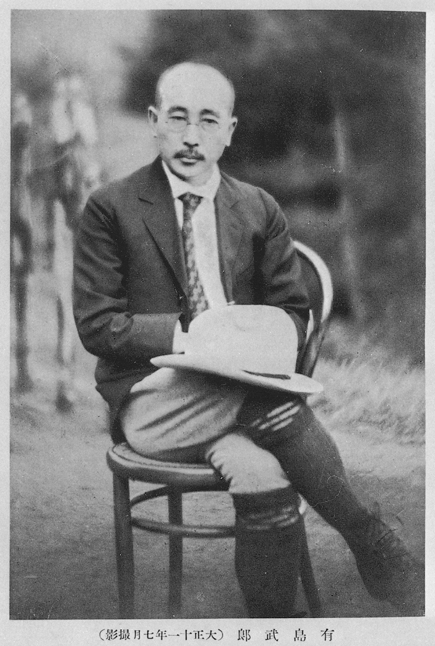 Portrait of Arishima Takeo (有島武郎, 1878 – 1923)